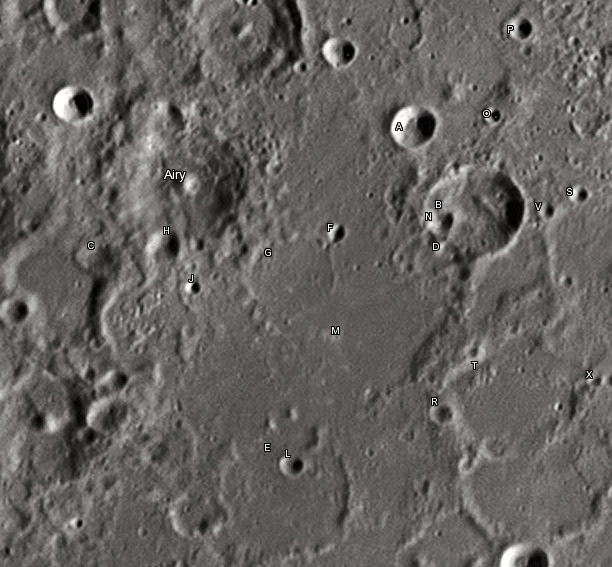 Airy lunar crater as seen from Earth with satellite craters labeled